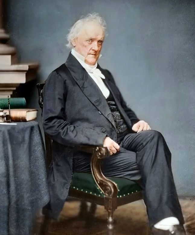 General notes: Digitally restored and colorized by Centpacrr